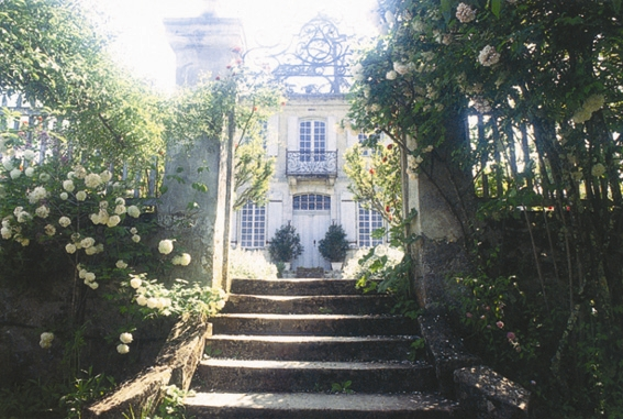 Château de Mongenan, french castle of the 18th century, in Portets (Gironde)